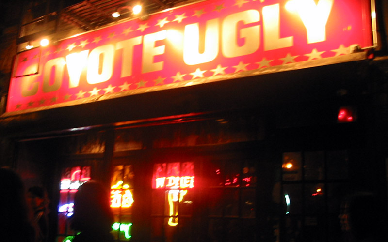 Outside of Coyote Ugly Saloon in New York. Photo taken by Lou Huang on March 20, 2003.